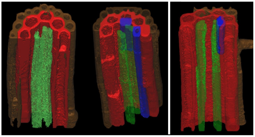 Cell-type specificity of TIP-YFP expression in the root axis. 8-day old roots from the indicated transgenic lines were excised, stained with propidium iodide for 2 min and visualised by CLSM. Stacks of 80 optical z sections (1 μm step-size) were collected from root axes at the differentiation zone. The images show representative results for each construct. A to F: for each panel, the top section shows a single xy optical section, and the bottom section shows the xz projection of the whole image stack, revealing the cross section of the root axis. The signals from YFP fluorescence (green) and propidium iodide fluorescence (red) are merged. G and H: the YFP fluorescence trace from representative image stacks for the indicated transgenic lines was reconstructed, segmented and rendered in 3D with Mimics 12.1. The different tissues are colour-coded as follows: brown, epidermis; red, cortex; blue, endodermis; green, pericycle. Ep, epidermis; c, cortex; e, endodermis; p, pericycle; x, xylem. Scale bar: 20 μm.